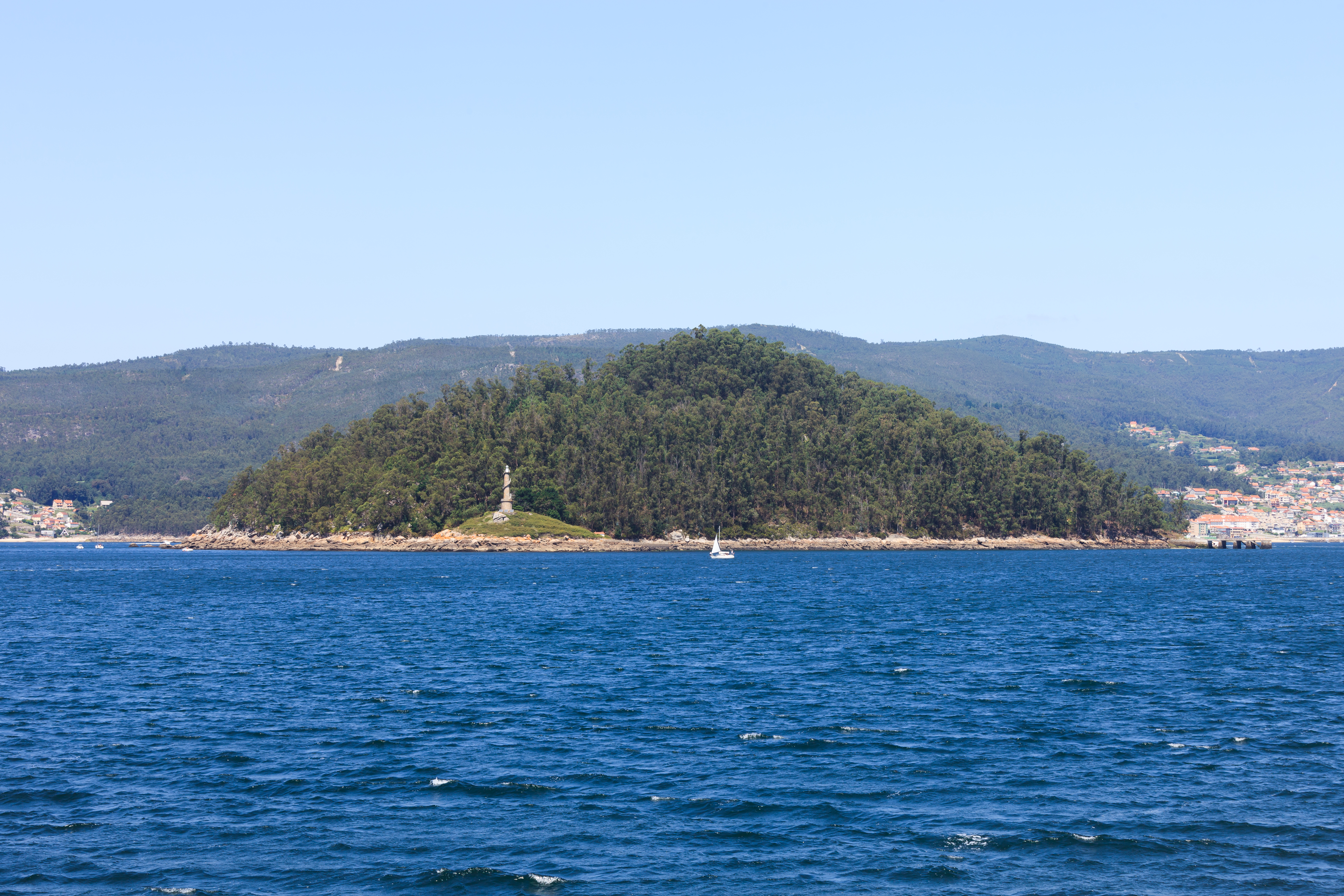 Island of Tambo, Galicia (Spain).